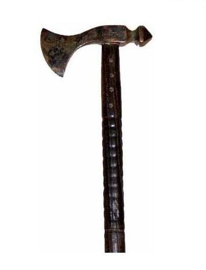 Hungarian weapon called "fokos"